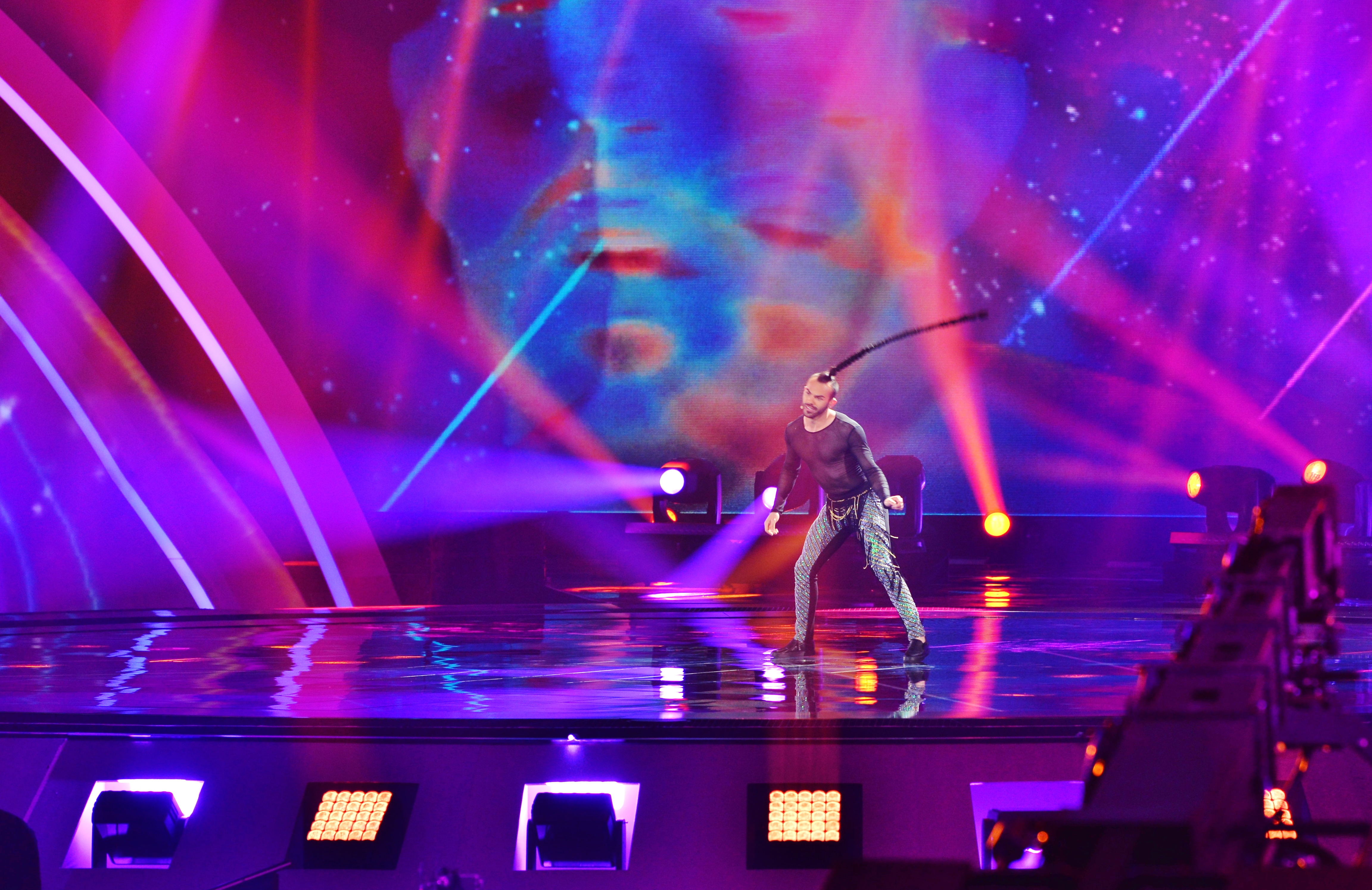 Slavko Kalezić Rehearsal in Kyiv